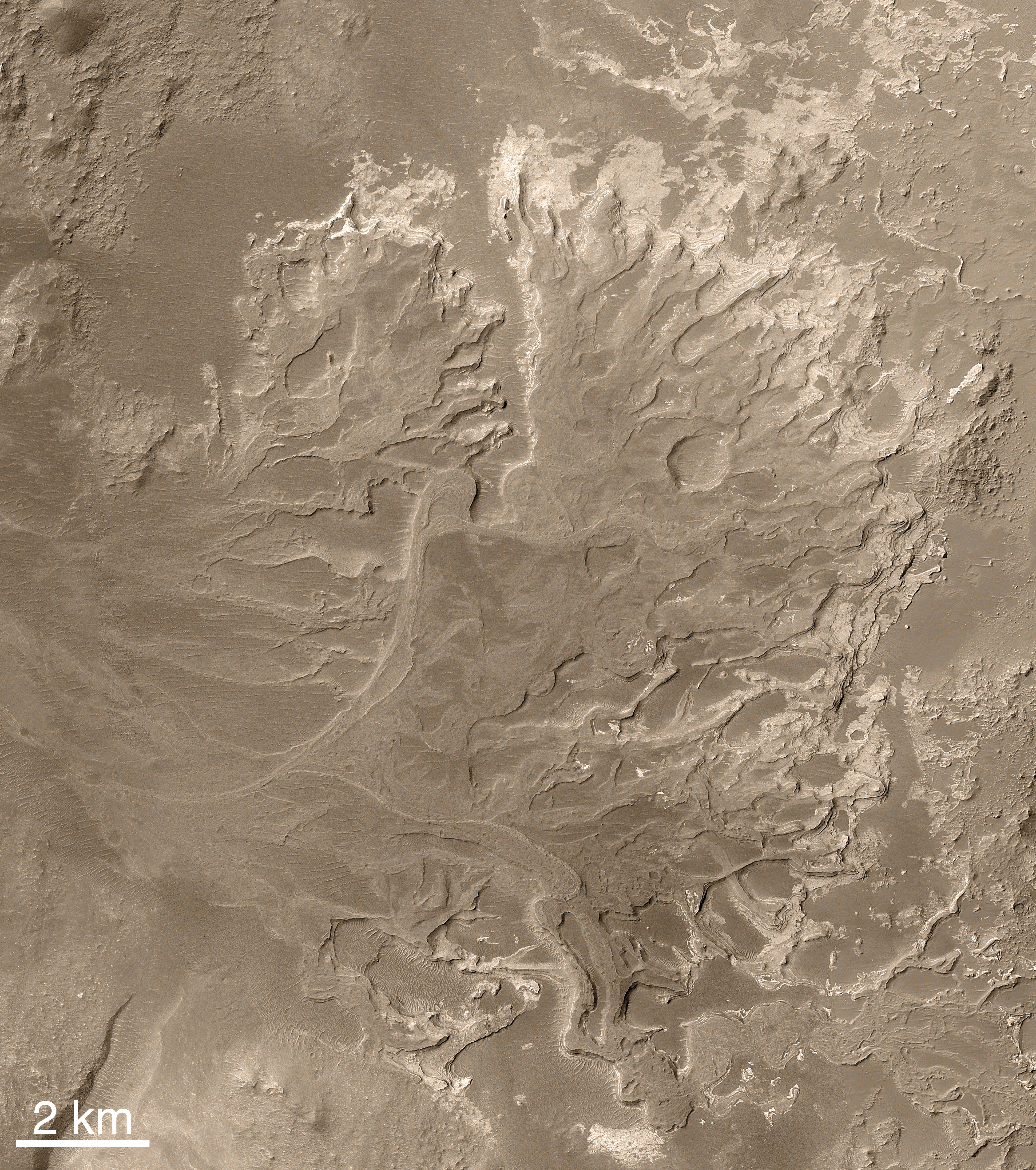 Scientifically, perhaps the most important result of the Mars Global Surveyor (MGS) Mars Orbiter Camera (MOC) investigation during the MGS Extended Mission has been the discovery and documentation of a fossil delta located in a crater northeast of Holden Crater near 24.0°S, 33.7°W. Since the announcement of the discovery of the delta in November 2003, the International Astronomical Union has provided a provisional name (pending final approval) for the crater in which the landforms occur. The crater has been named Eberswalde, for a town in Germany.